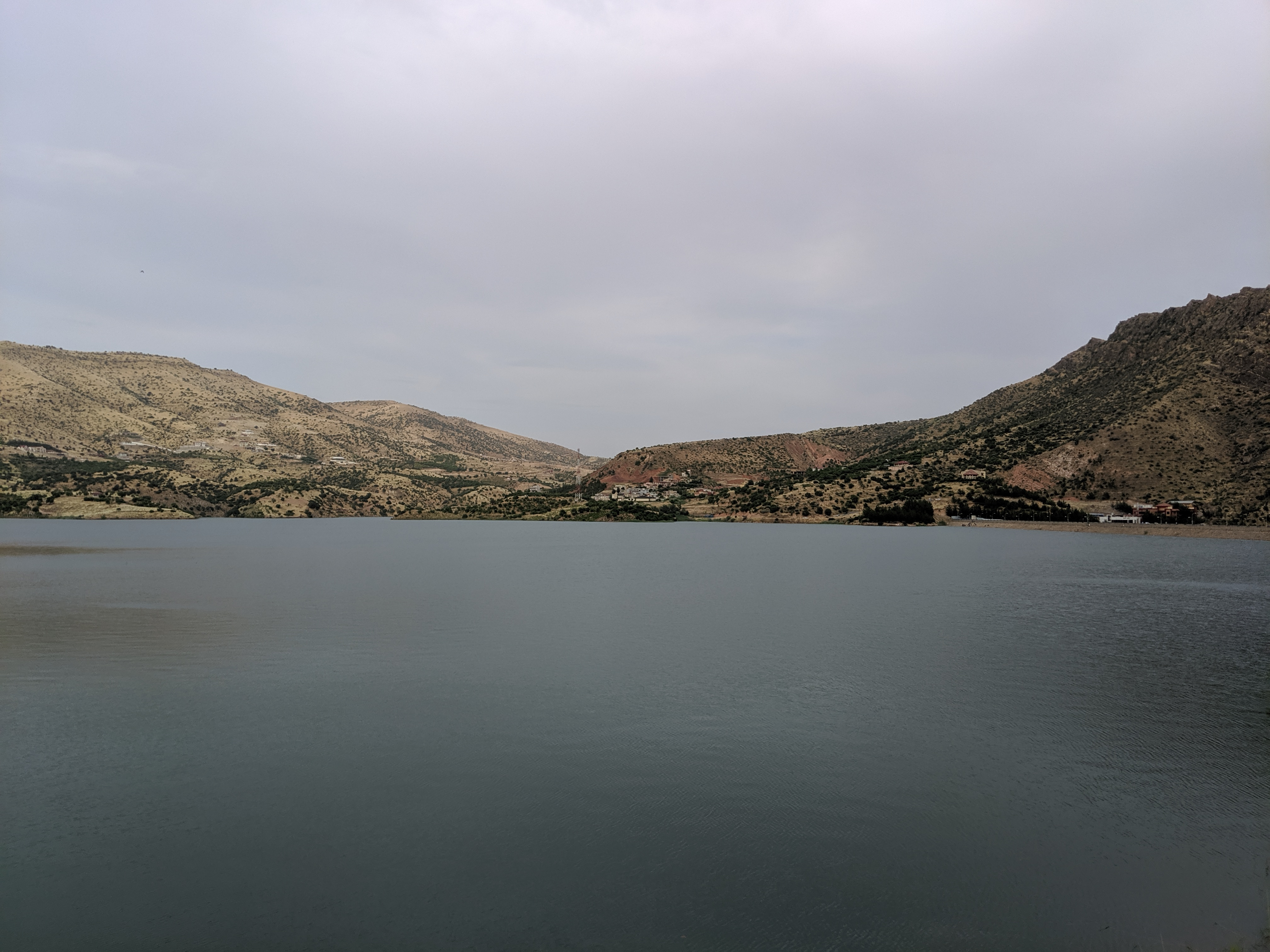 Dam located Duhok, Iraqi Kurdistan